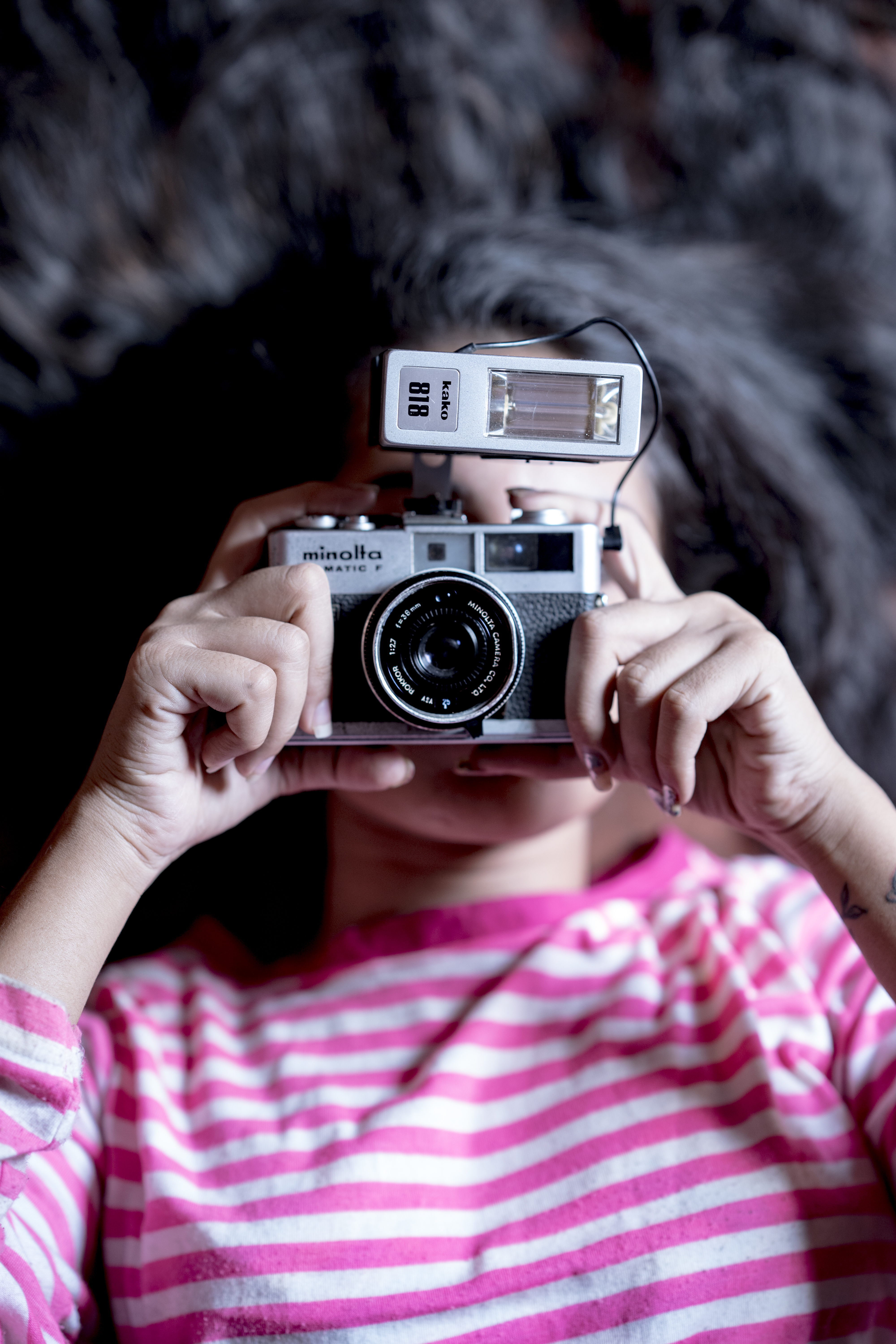 A woman in a striped shirt lying on her back and holding a Minolta Hi-Matic F camera in front of her face.